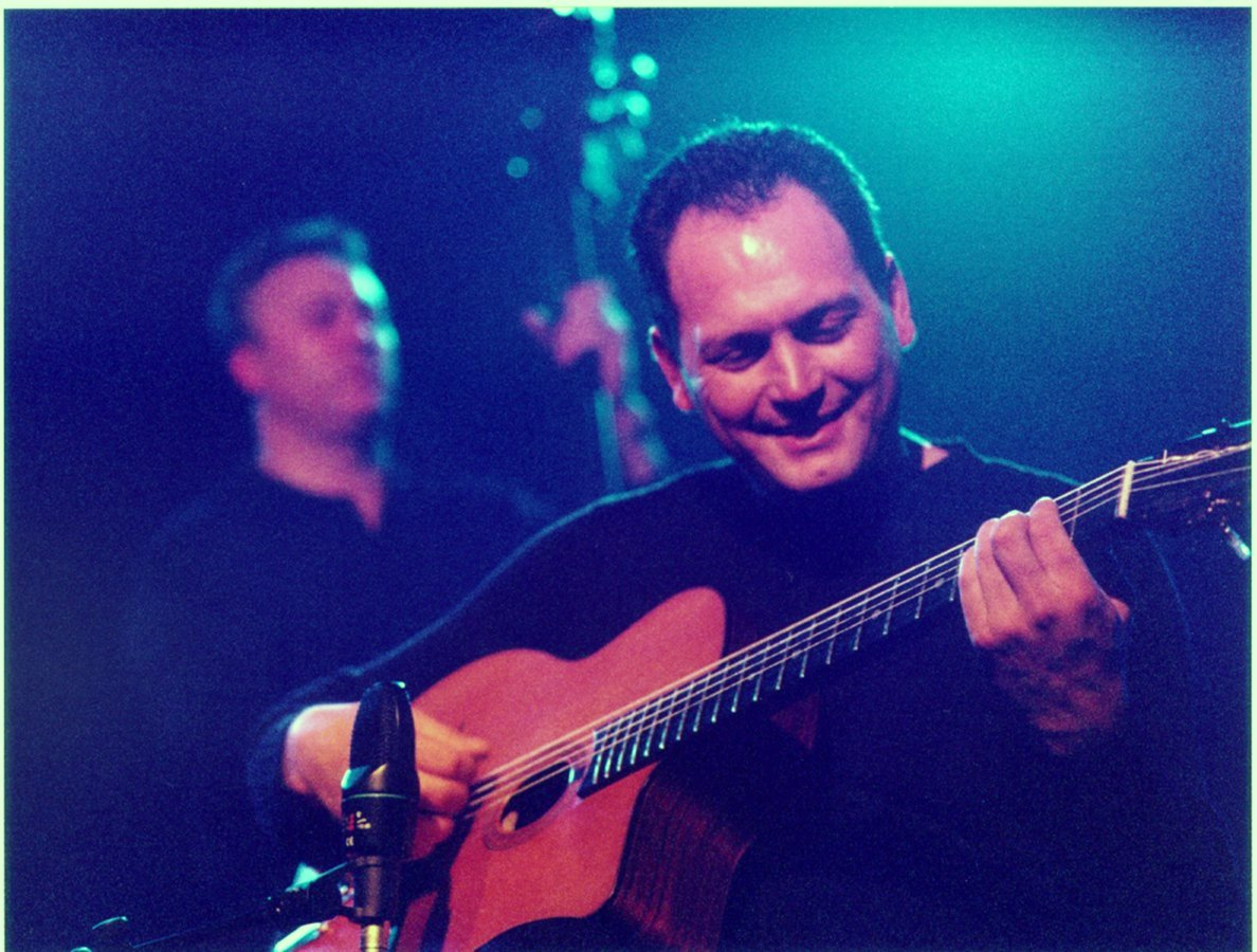 Stochelo Rosenberg (gypsy jazz guitarist) in concert in the Netherlands, 2002 (photograph by Tony Rees)